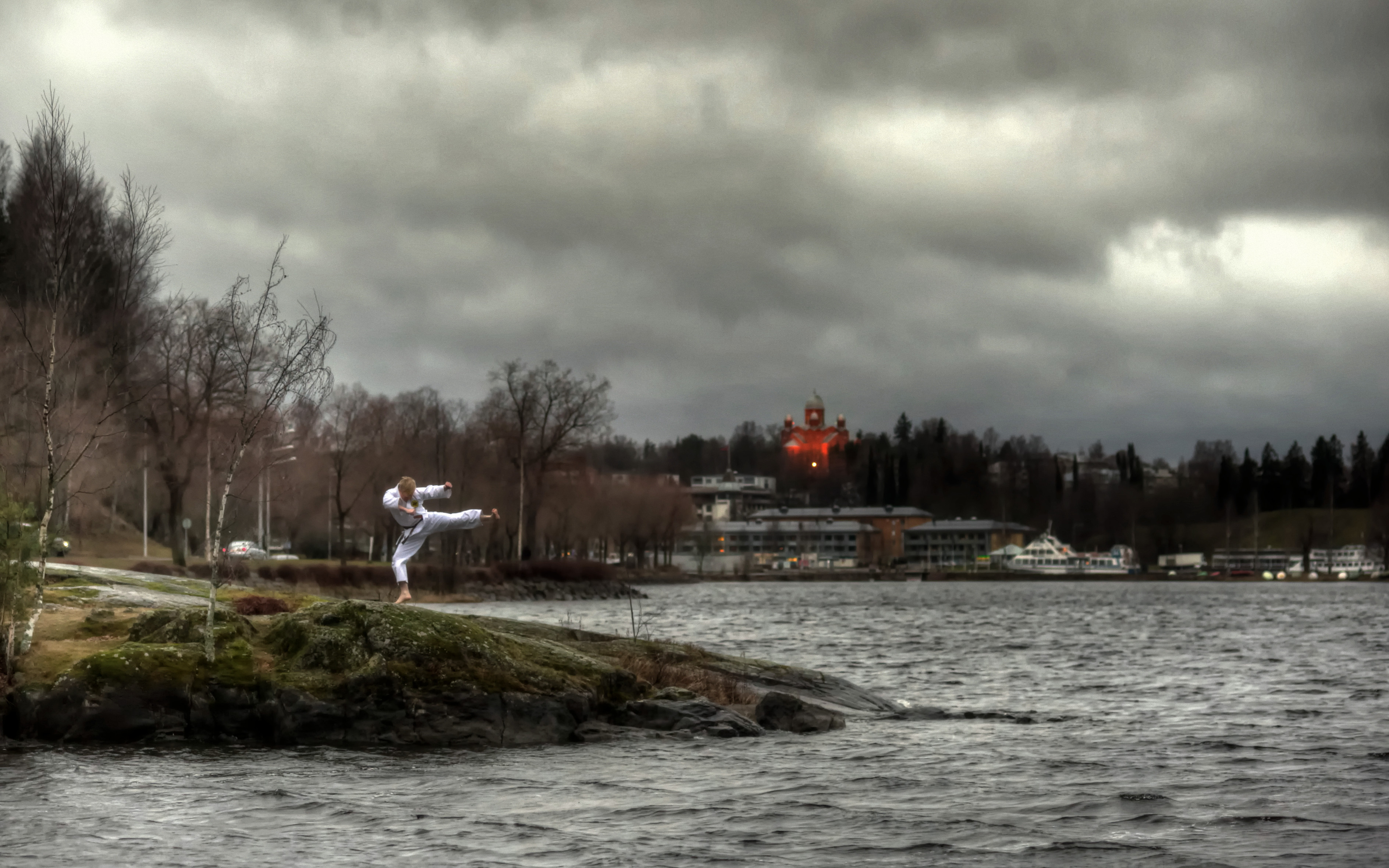 Karate in Lappeenranta, Finland